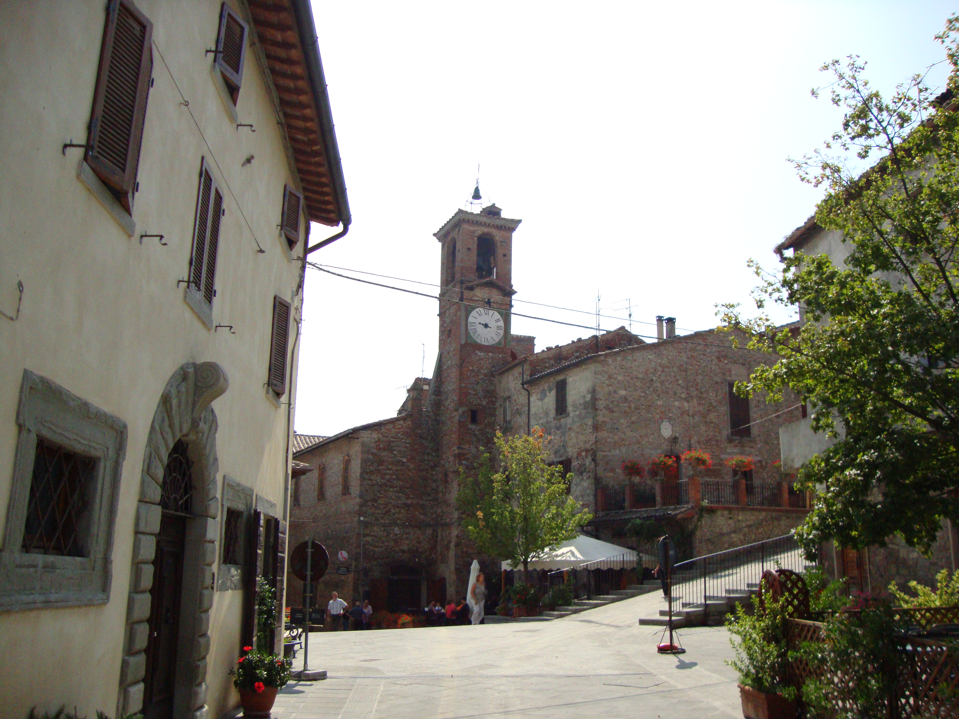 Citerna - Principal square